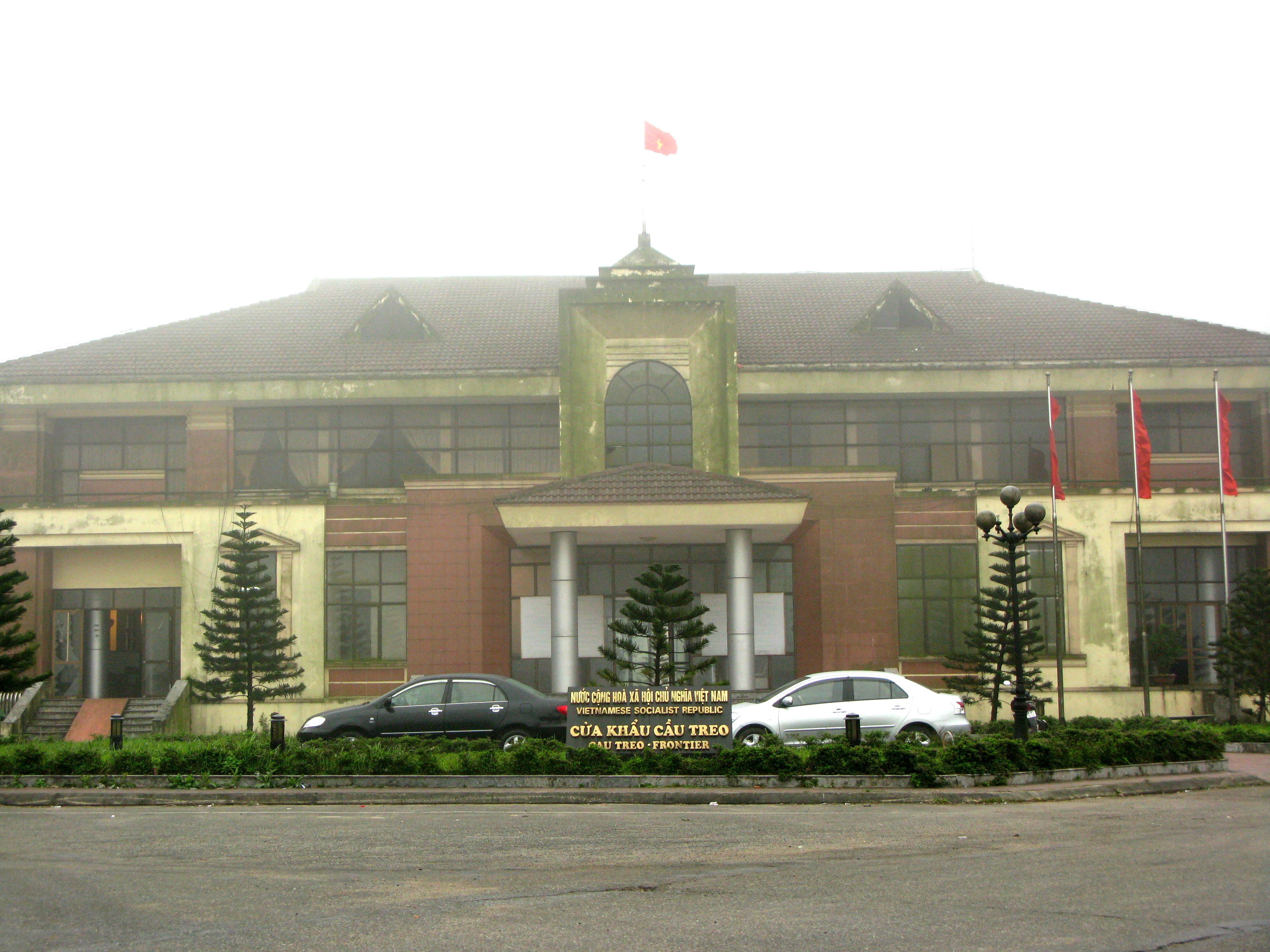 The checkpoint at Cầu Treo International Border Gate. This is the gate from Vietnam to Lao PDR by the National Route #8.